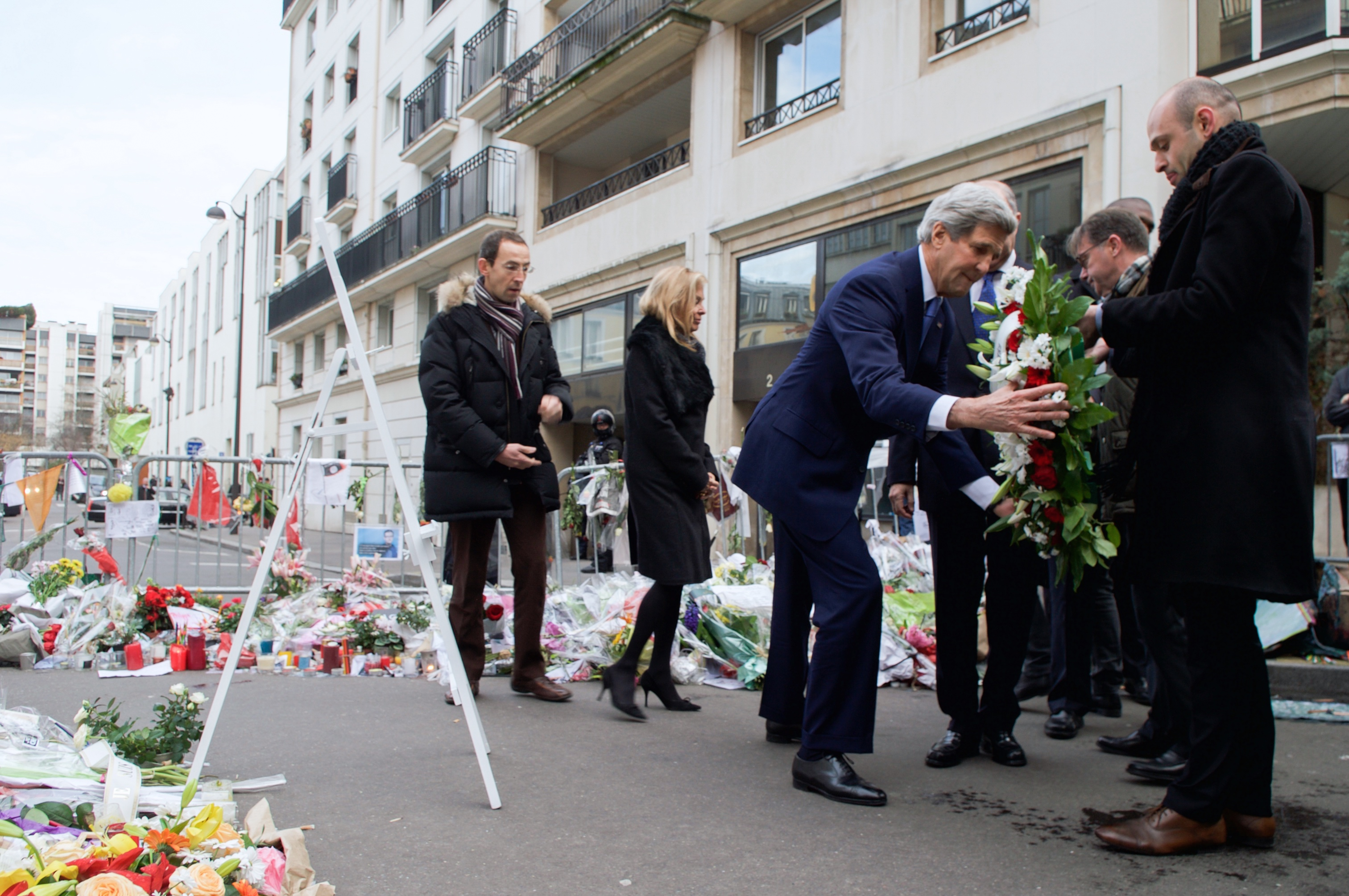 U.S. Secretary of State John Kerry picks up a wreath to lay at the site of last week's shooting at the headquarters of the French satirical magazine Charlie Hebdo as he paid homage to all the victims with stops throughout Paris, France, on January 16, 2015. [State Department photo/ Public Domain]